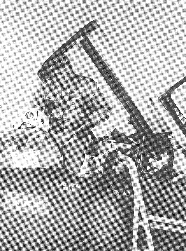 Original caption: VISIT TO OSAN -- Lt. Gen. Seth J. McKee, Fifth Air Force Commander, unstraps himself from the F-4 jet which brought him to Osan Air Base, Korea, for a two-day command visit. Department of Defense photo, scanned from Commander's Digest: 4, January 6, 1968 .